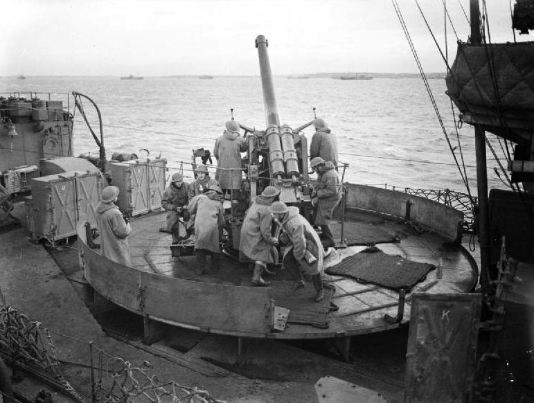 IWM caption : "Gun drill on a 4 inch gun on board the Polish destroyer ORP PIORUN, formerly HMS NERISSA. She was handed over to the Polish Navy by the British government to replace the GROM another Polish destroyer which was bombed and sunk off Norway." Comment : This is a QF 4 inch Mk V gun mounting HA Mark III**, showing 2 additional spring recuperators above the barrel to assist run-out at high angle.